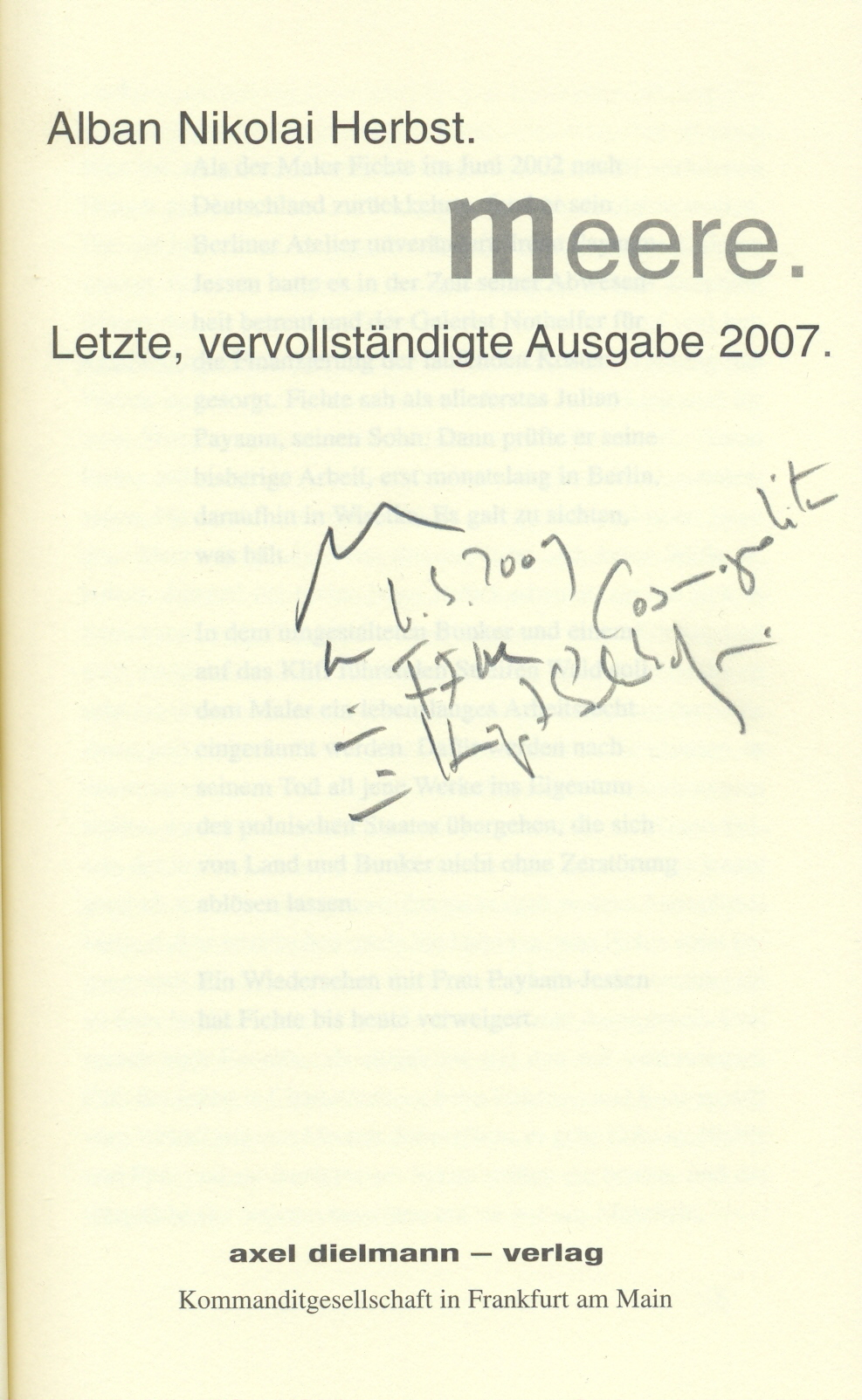 Autograph from Alban Nikolai Herbst